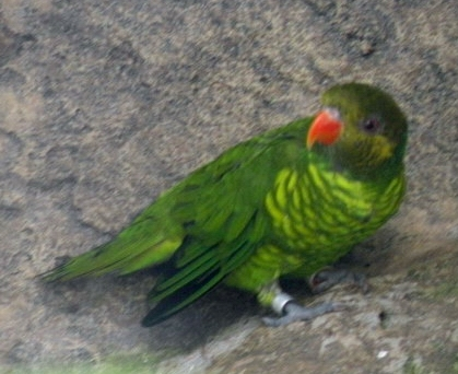 Yellow-and-green Lorikeet at Loro Parque, Tenerife, Spain.